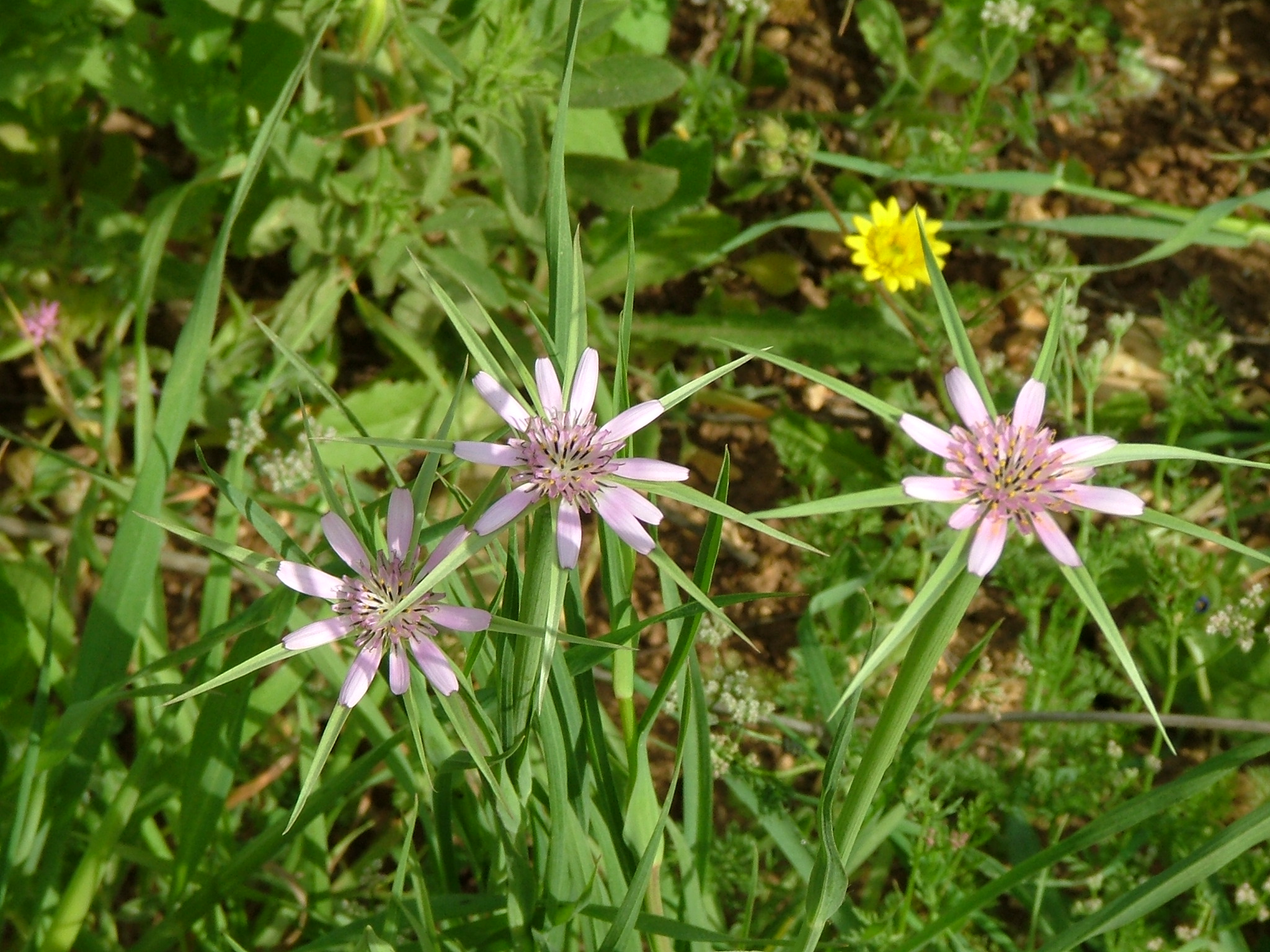 A Goat's Beard (Geropogon hybridus) in the Nataf area.